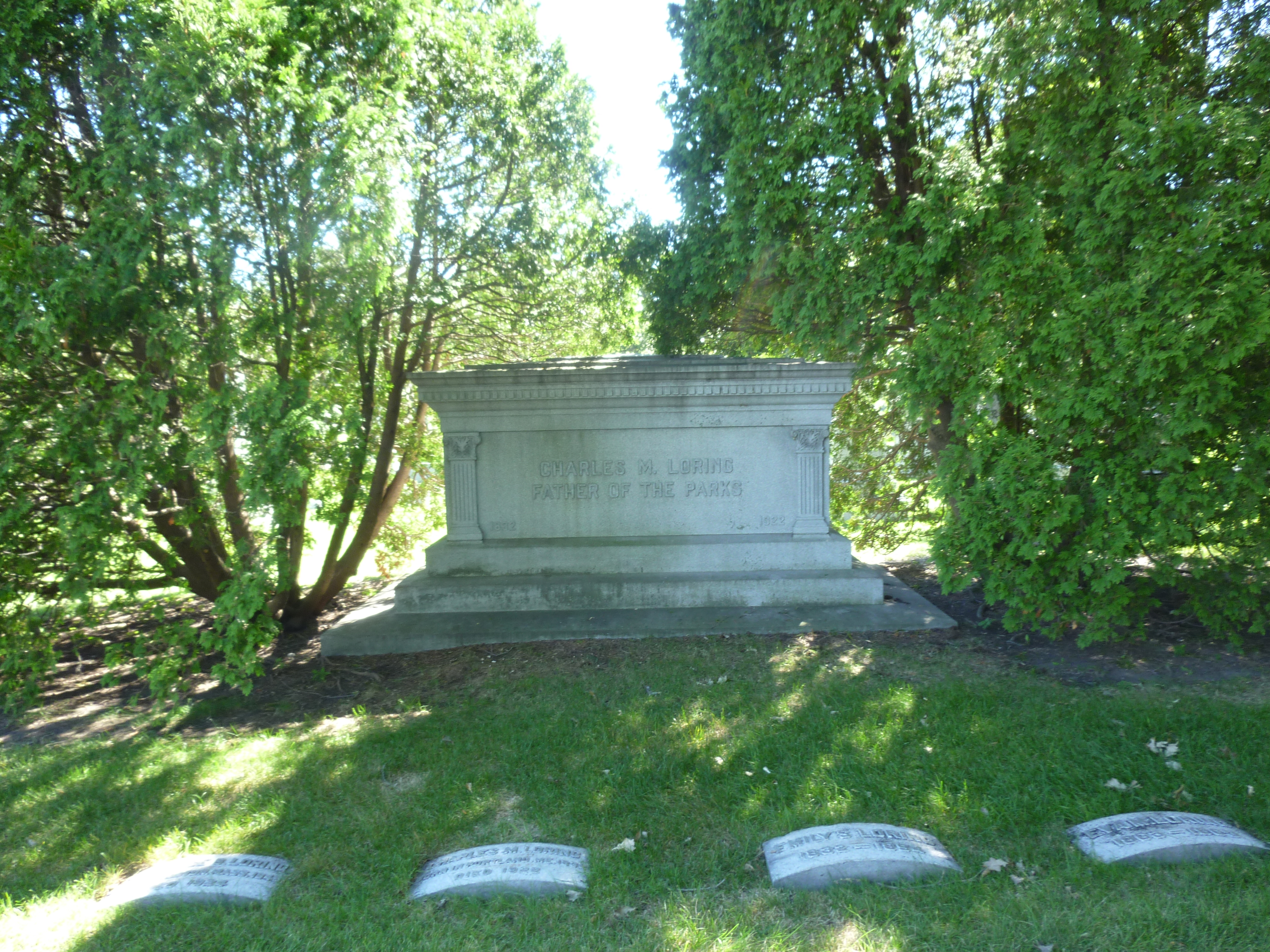 Grave of Charles M. Loring at Lakewood Cemetery in Minneapolis